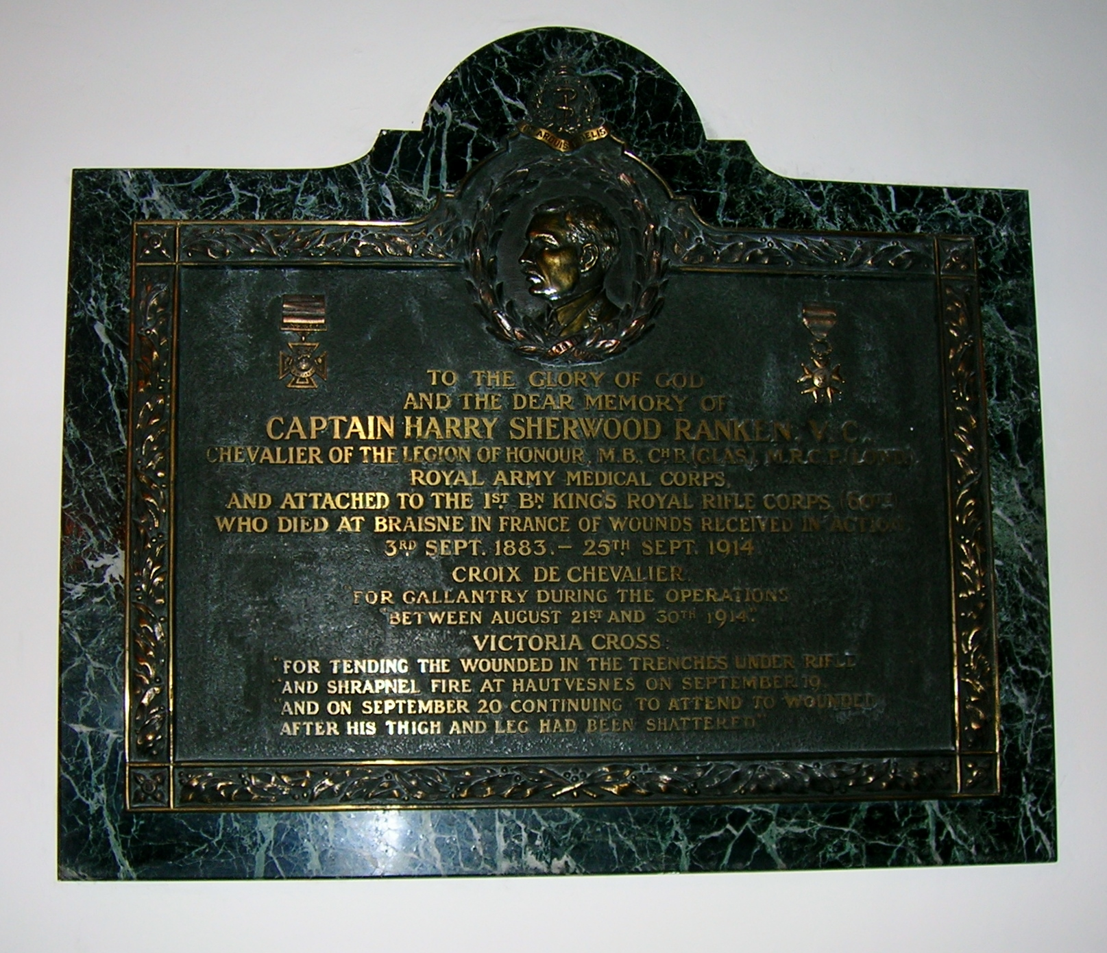 Captain Harry Rankin VC memorial, Irvine Old Parish Church, North Ayrshire, Scotland.